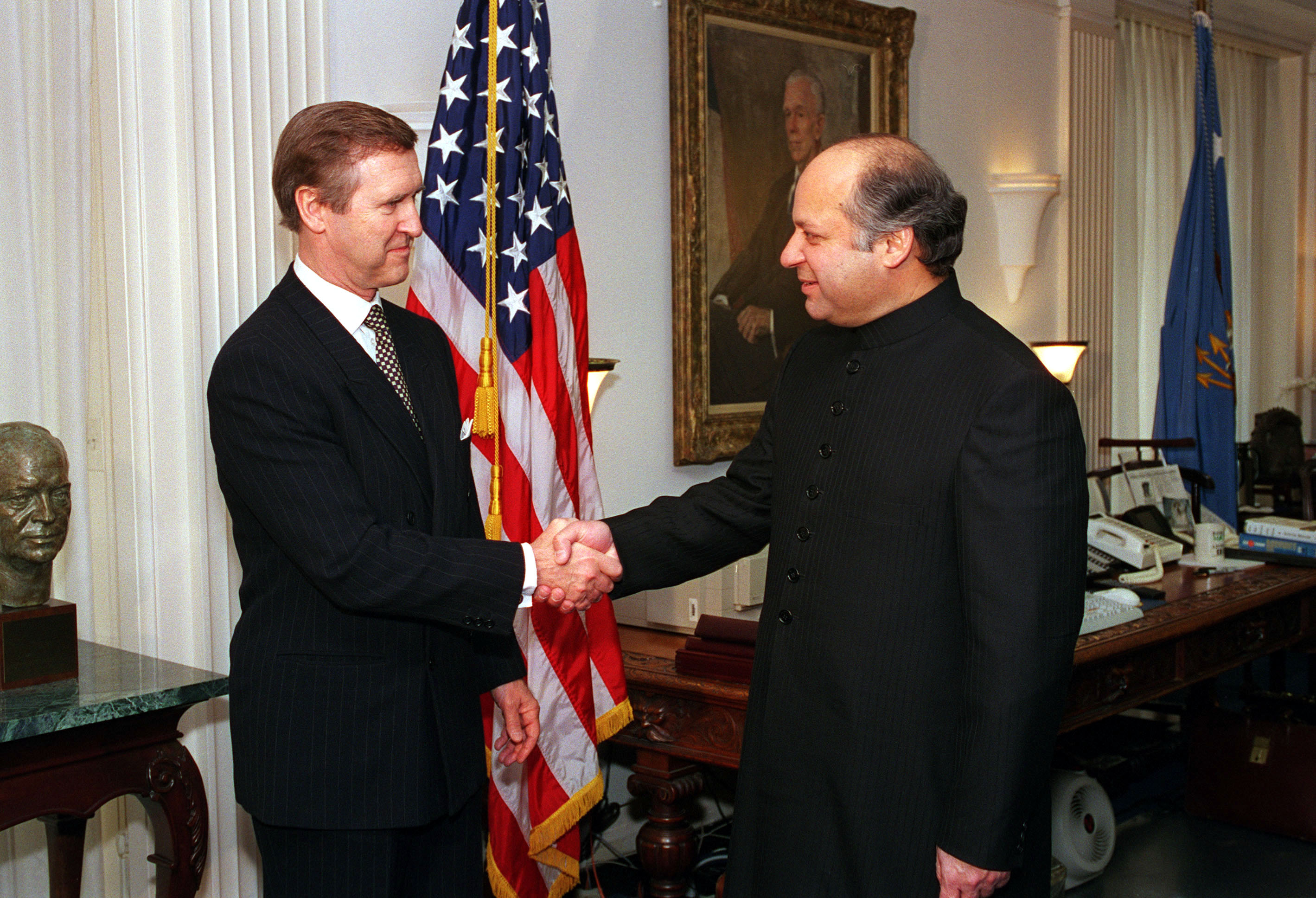 Original caption Secretary of Defense William S. Cohen (left) welcomes Prime Minister Nawaz Sharif of Pakistan to the Pentagon, Dec. 3, 1998. Cohen and his senior advisors will meet with Sharif to discuss a range of regional and international issues of interest to both nations.